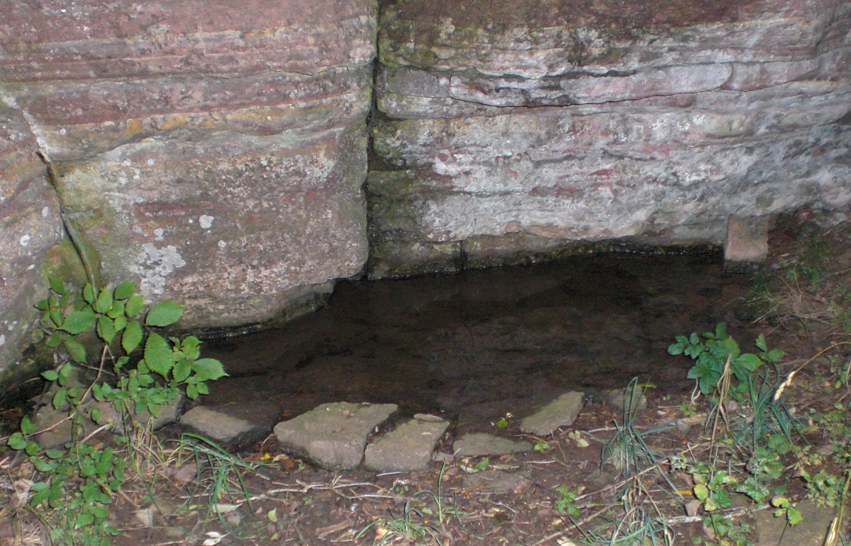 Saint Elof's spring between Borgholm and Köpingsvik, Borgholm municipality, Öland, Kalmar county, Sweden.